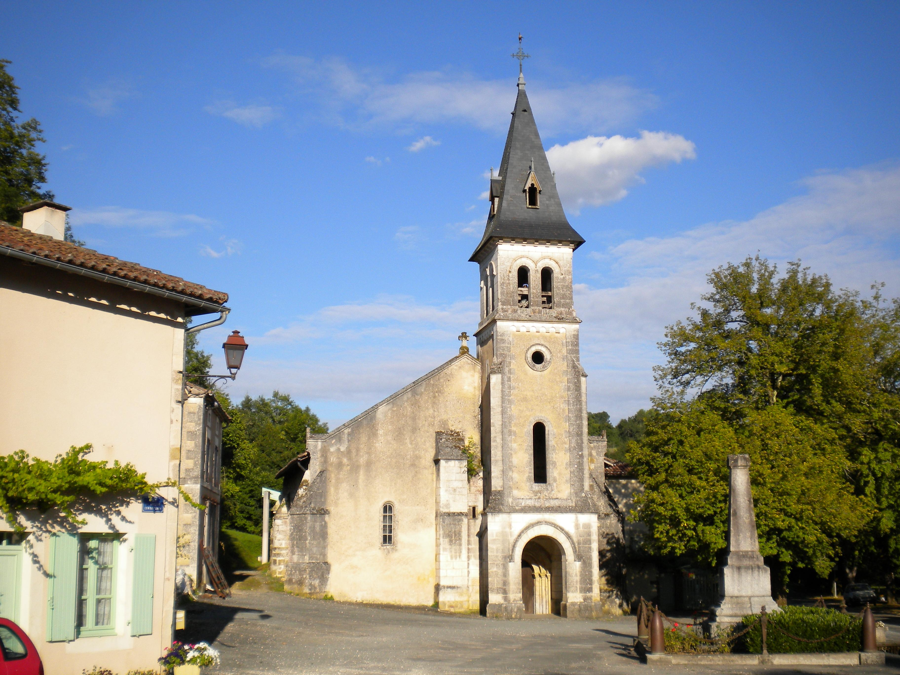 The Church of Teyjat in the Dordogne, France.